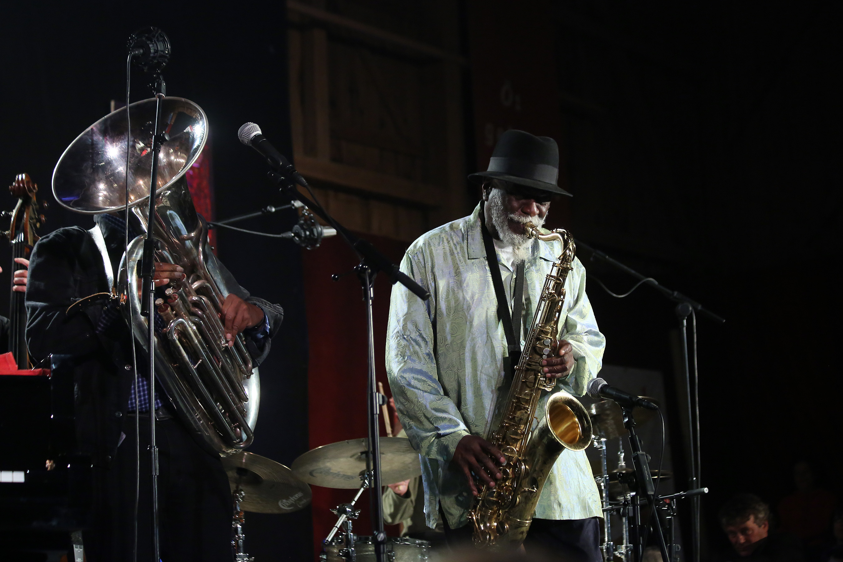 Pharoah Sanders (ts), William Henderson (p), Oli Hayhurst (b), Gene Calderazzo (dr), Dwight Trible (voc), Howard Johnson (tub) - INNtöne Jazzfestival (Diersbach, Upper Austria)